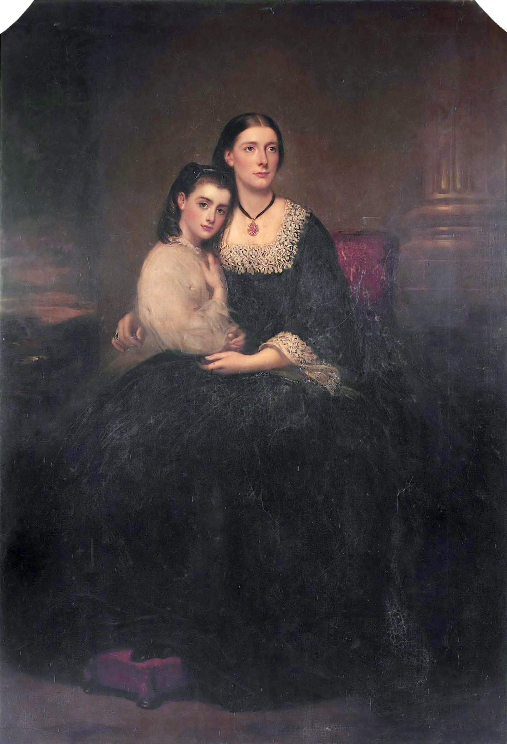 Emily, 1st Vicountess Hambleden, and her daughter oil on canvas 207.6 x 142.3 cm signed b.r.: R. Buckner